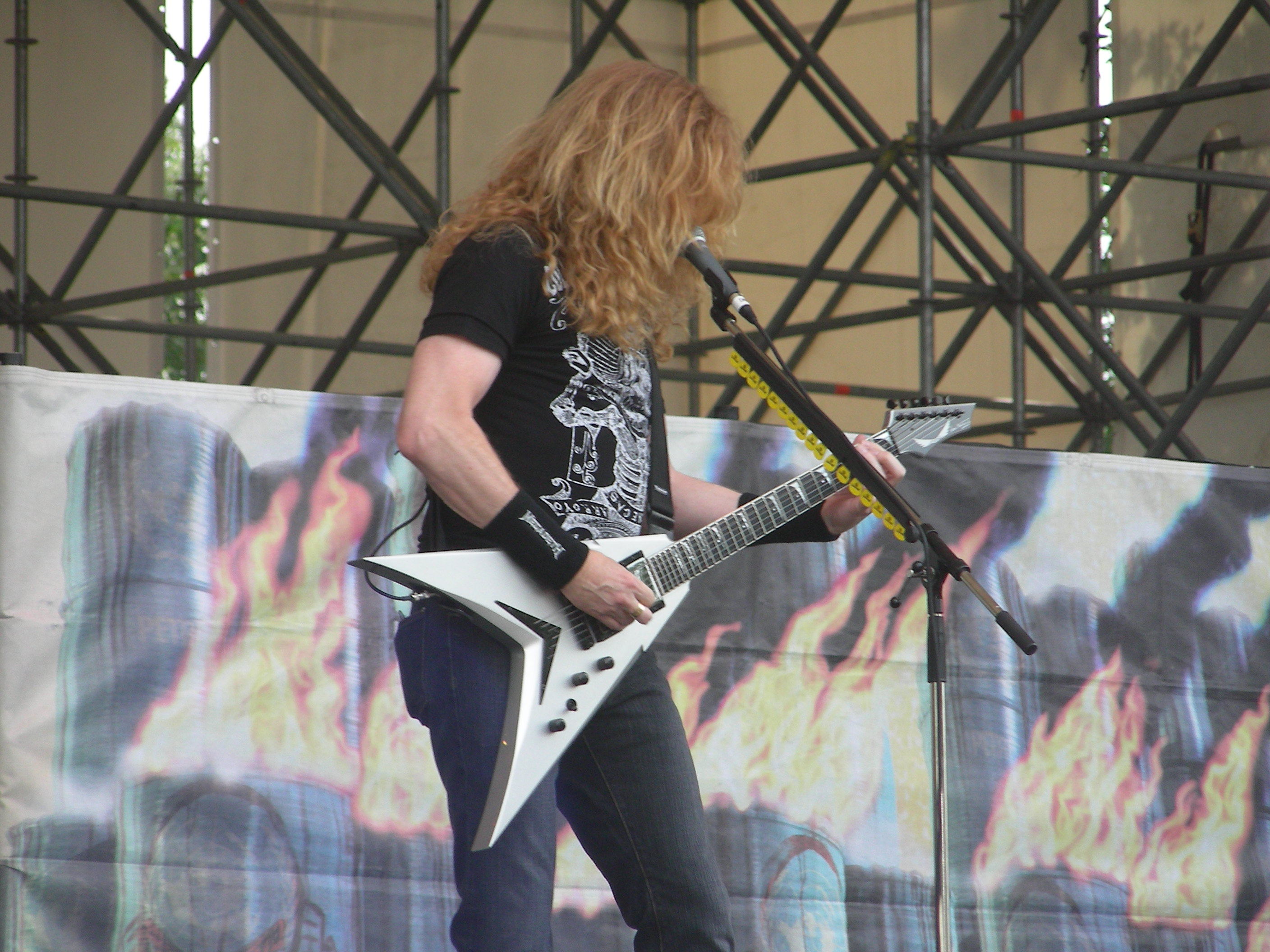 I Megadeth al Gods of Metal 2007